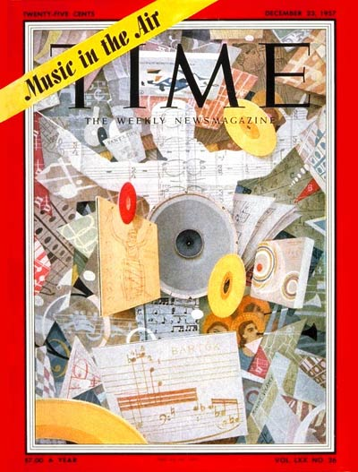 Time magazine, Volume 70 Issue 26. Front cover is an illustration about the classical music business, "Music in the Air"